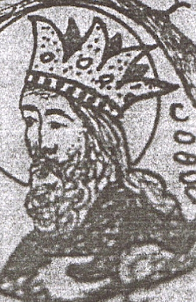 Leo VI, Byzantine Emperor